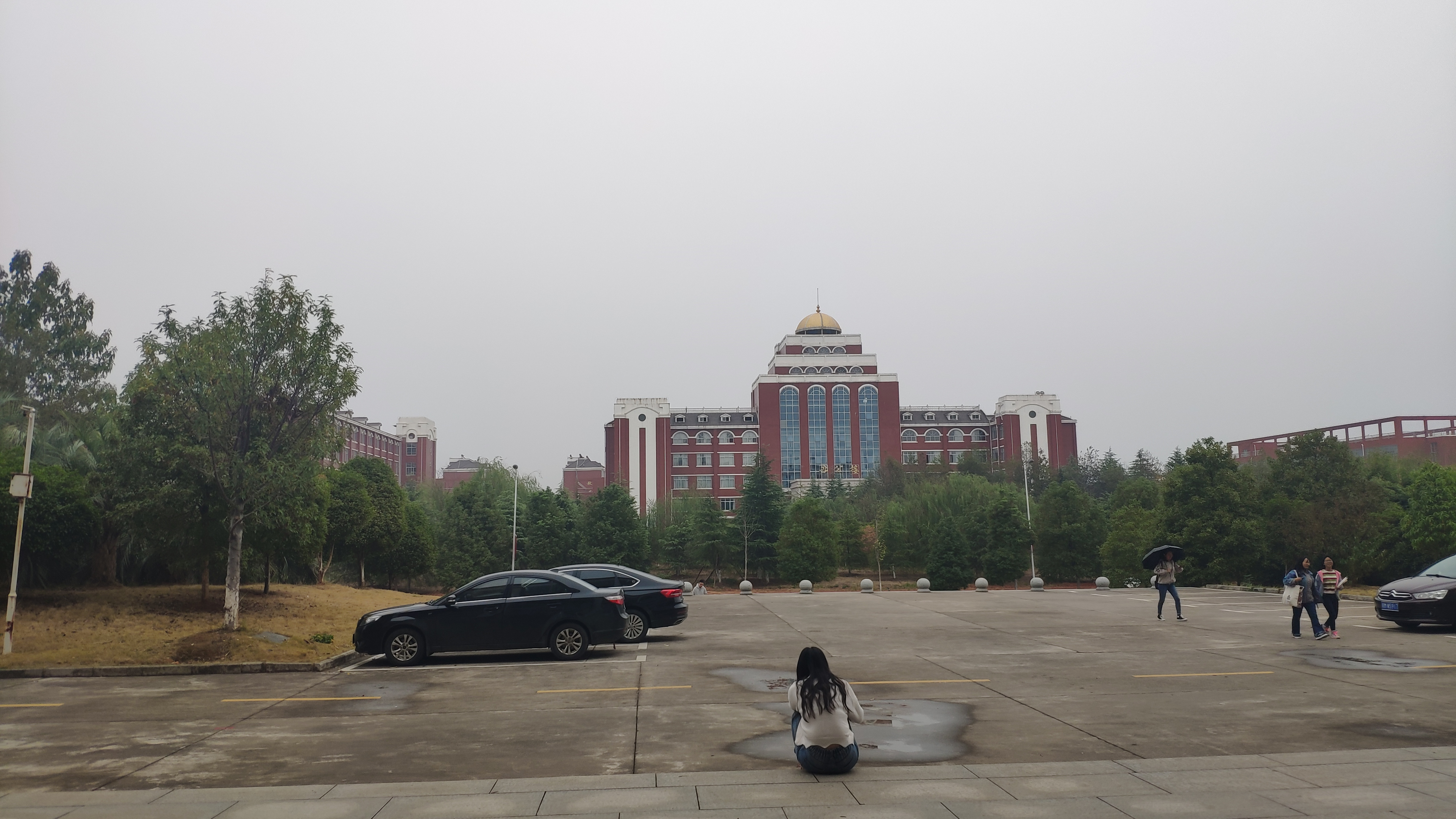 Nanchang Vocational College